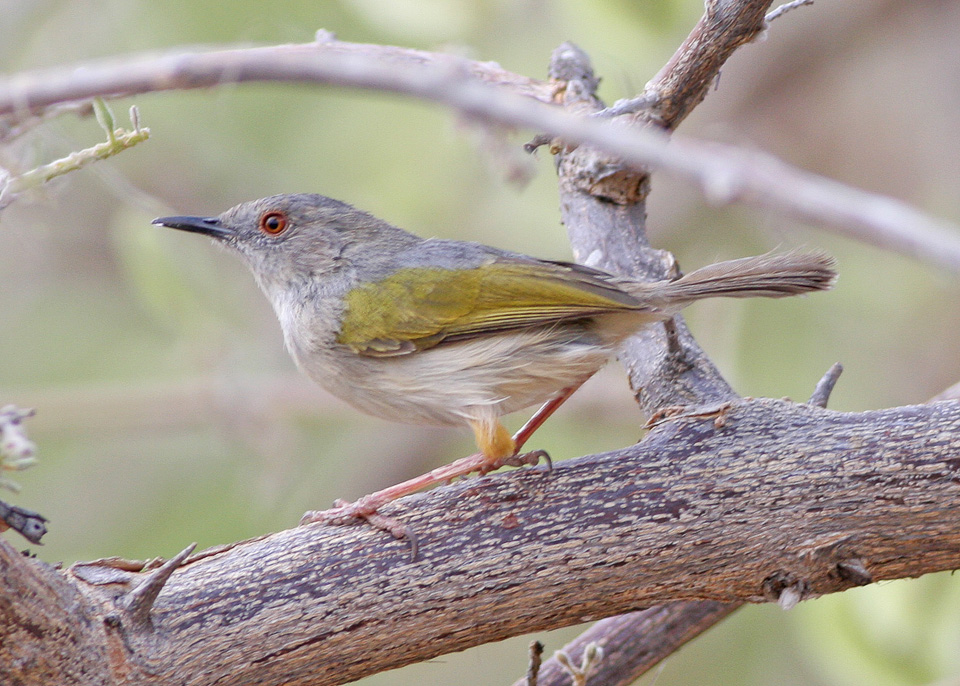 Grey-backed Camaroptera (Camaroptera brachyura).